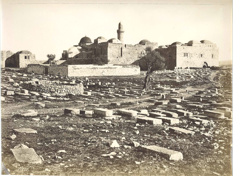 Nabi Da'ud mosque on Mt. Zion - the place of presumed King David's Tomb, the Cenacle, and old franciscan church